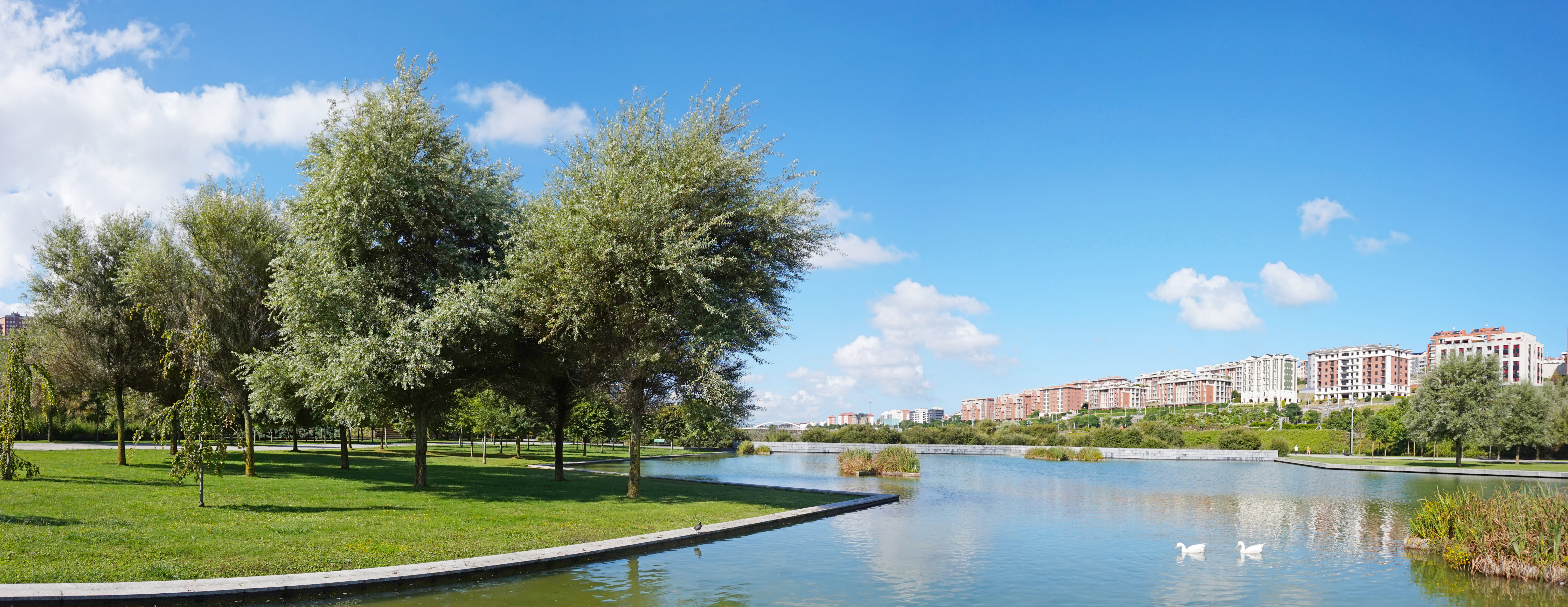 Parque de las Llamas in Santander, Spain.This photograph was taken with a Sony ILCE-5000